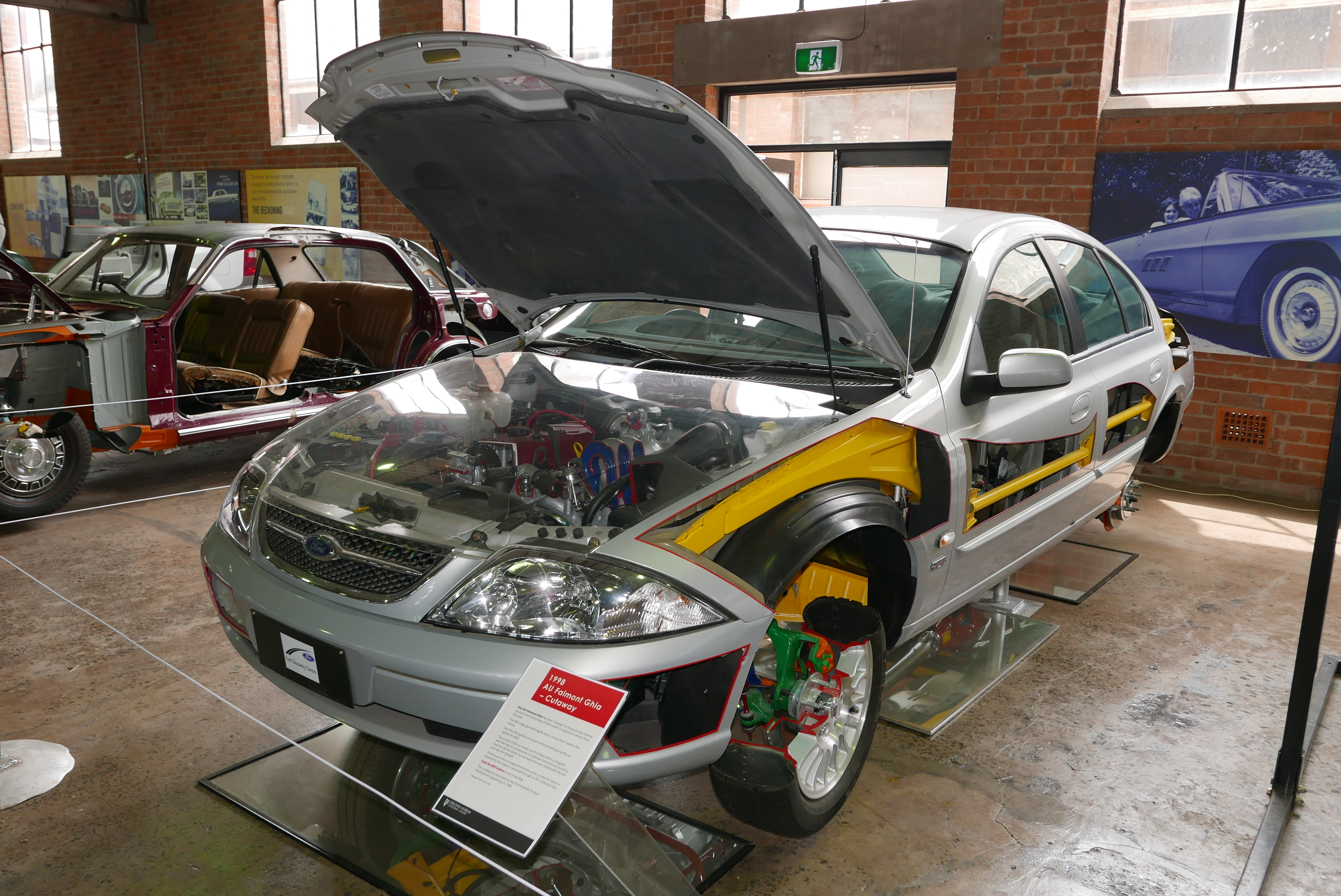 Cutaway of a 1998 Ford Fairmont (AU) Ghia sedan. Photographed at the Geelong Museum of Motoring and Industry, North Geelong, Victoria, Australia. This cutaway was made by Ford Australia apprentices in 1998. The car has been cutaway to reveal the internal structure and functioning. Red edges generally signify that a cut has been made to the vehicle; yellow edges signify structural reinforcements giving the car rigidity for safety. To demonstrate the workings of the engine and driveline, an electric motor is attached to the engine's crankshaft through an 80:1 reduction box.